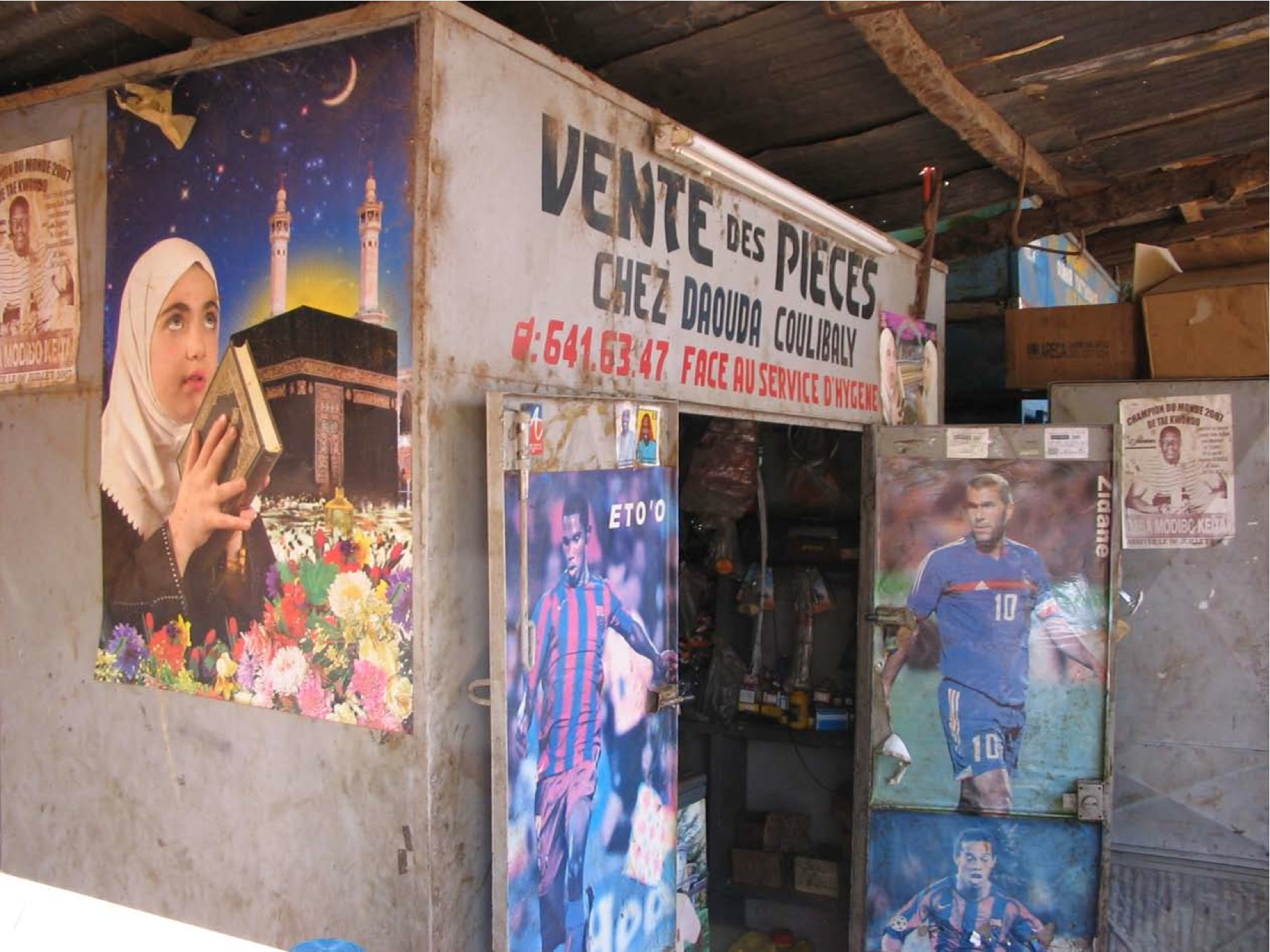 qubla" posters outside a small shop selling machine/vehicle parts in Fadjiguila Market ("marche Fadjiguila") Bamako, Mali. Football players, Muslim religious art, and posters celebrating Malian Olympic athlete Modibia Kieta are side by side in this Bamako workplace.